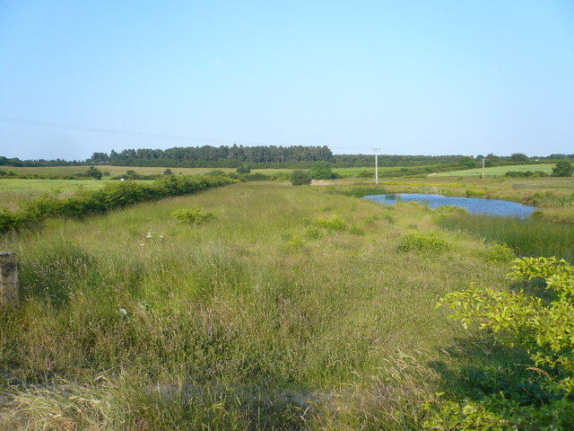 Creswell - Bridleway view towards small pond